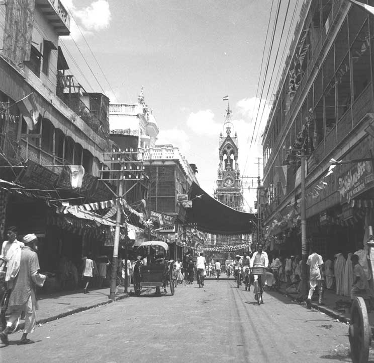 Indian National Flag hoisted at Chandni Chowk in New Delhi on Independence Day.